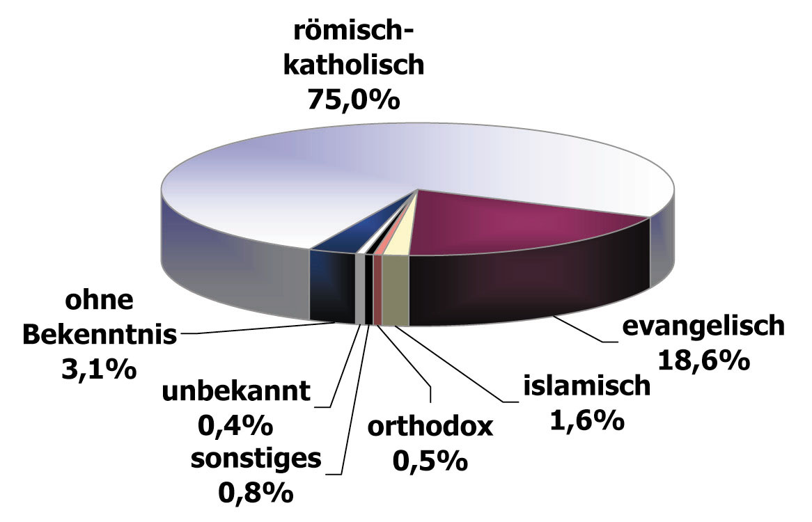 Chart religious groups Pinkafeld